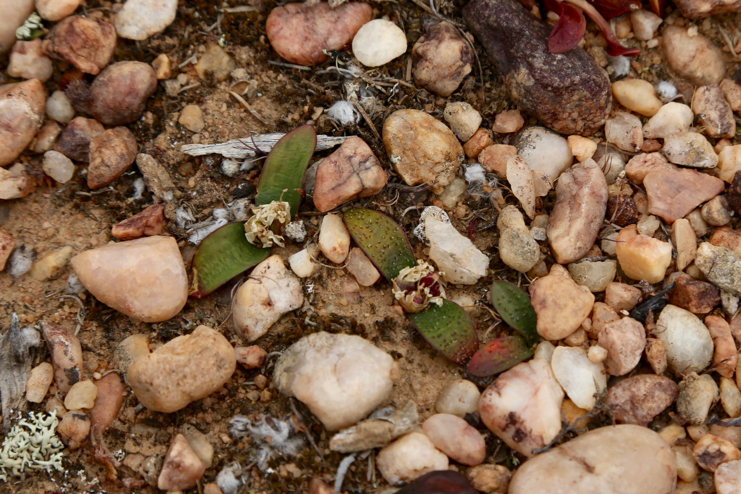 Oorlogskloof river canyon in the vicinity of Papkuilsfontein, Nieuwoudtville, Northern Cape, South Africa.